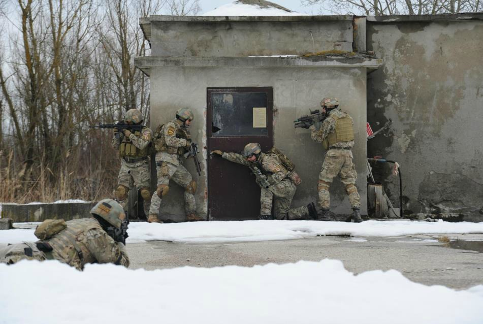 5 soldiers equipped with AEG (Airsoft Electric Gun) practice raid in winter condition.